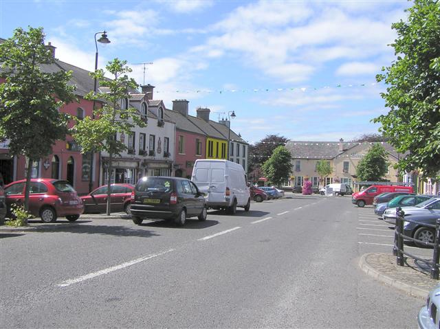 Belleek, County Fermanagh. The main street takes heads west and then takes a turn to the left to head to Ballyshannon or back to Enniskillen round Lough Erne